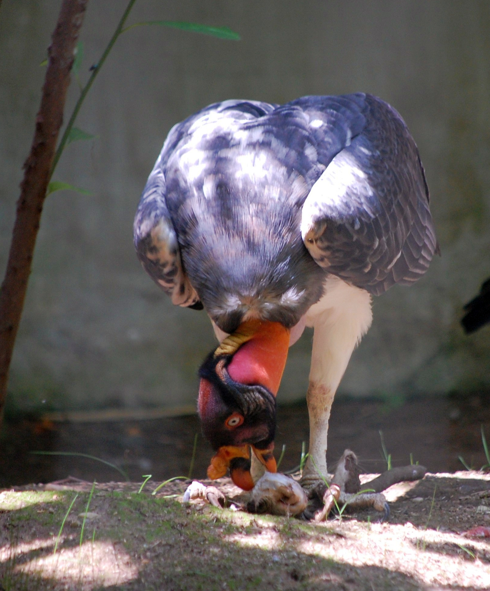 A King Vulture (Sarcoramphus papa) eating at Bronx Zoo, New York City, USA.